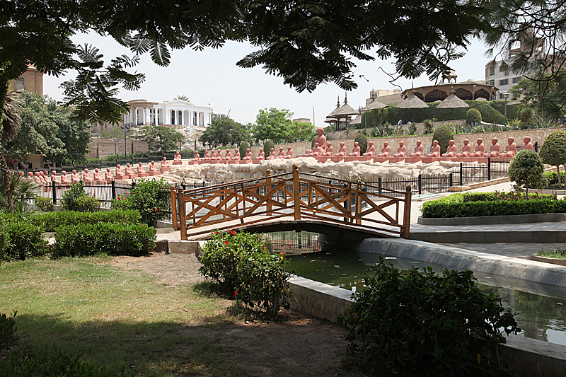 Row of 30 Buddhas, Japanese Garden, Helwan, Egypt